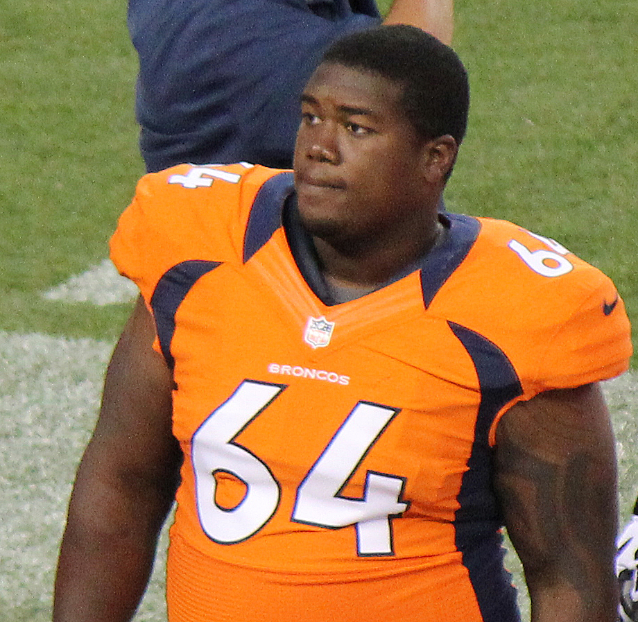 Philip Blake, a player on the National Football League.